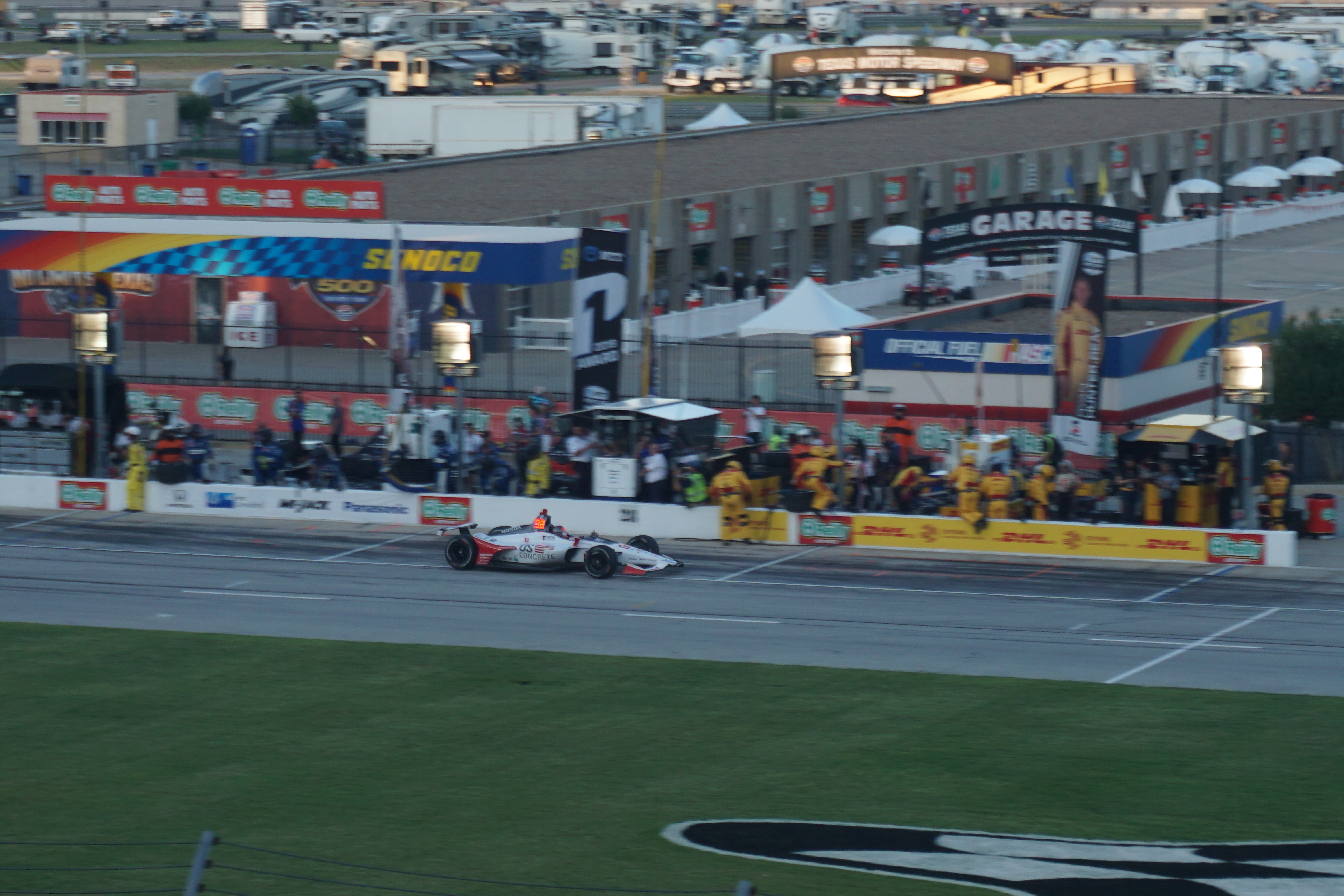 Marco Andretti making a pit stop during the 2019 DXC Technology 600 at Texas Motor Speedway in Fort Worth, Texas (United States).